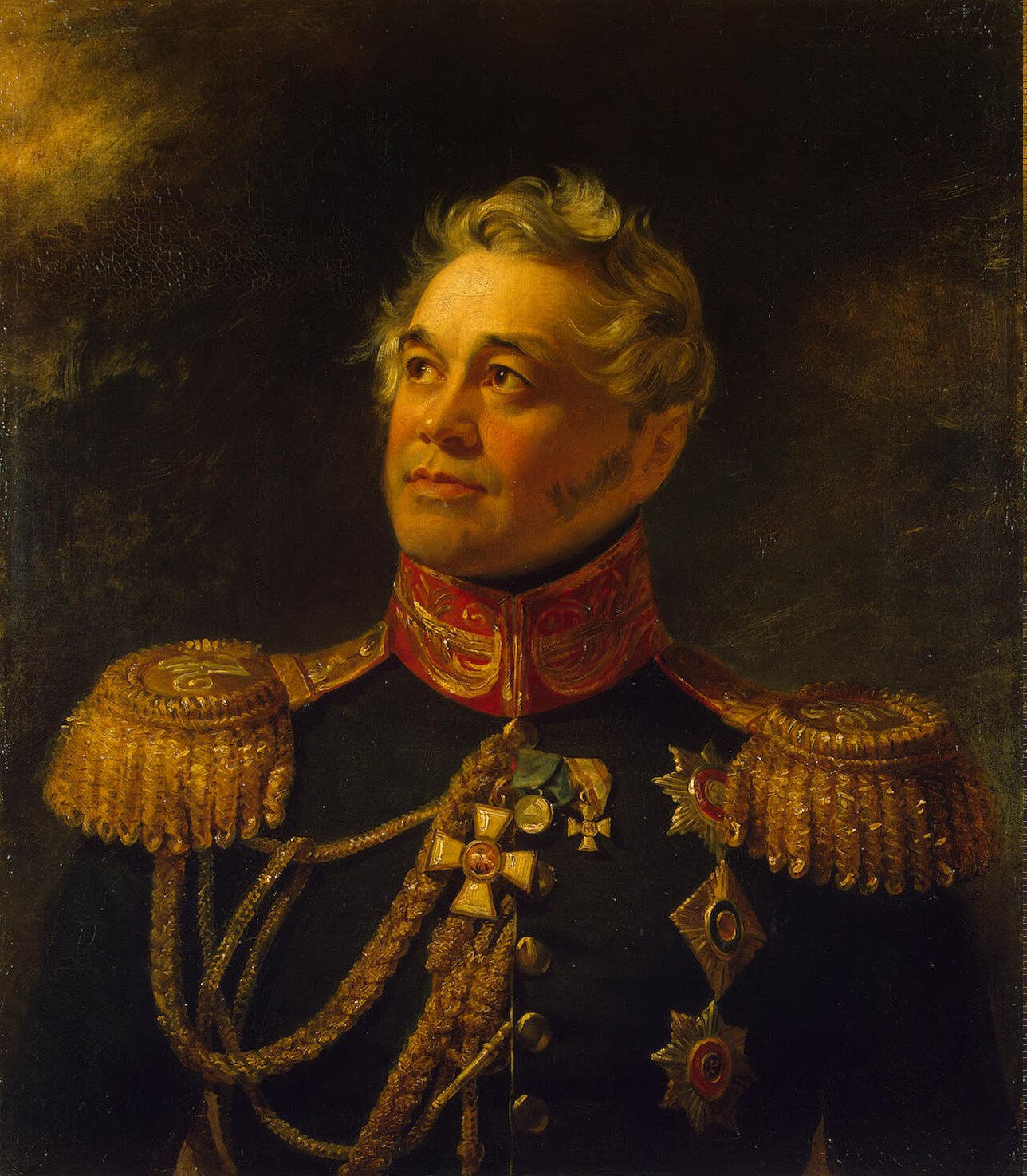 Alexey Grigoryevich Scherbatov 1-st (23.02.1776 – 18.12.1848) russian general